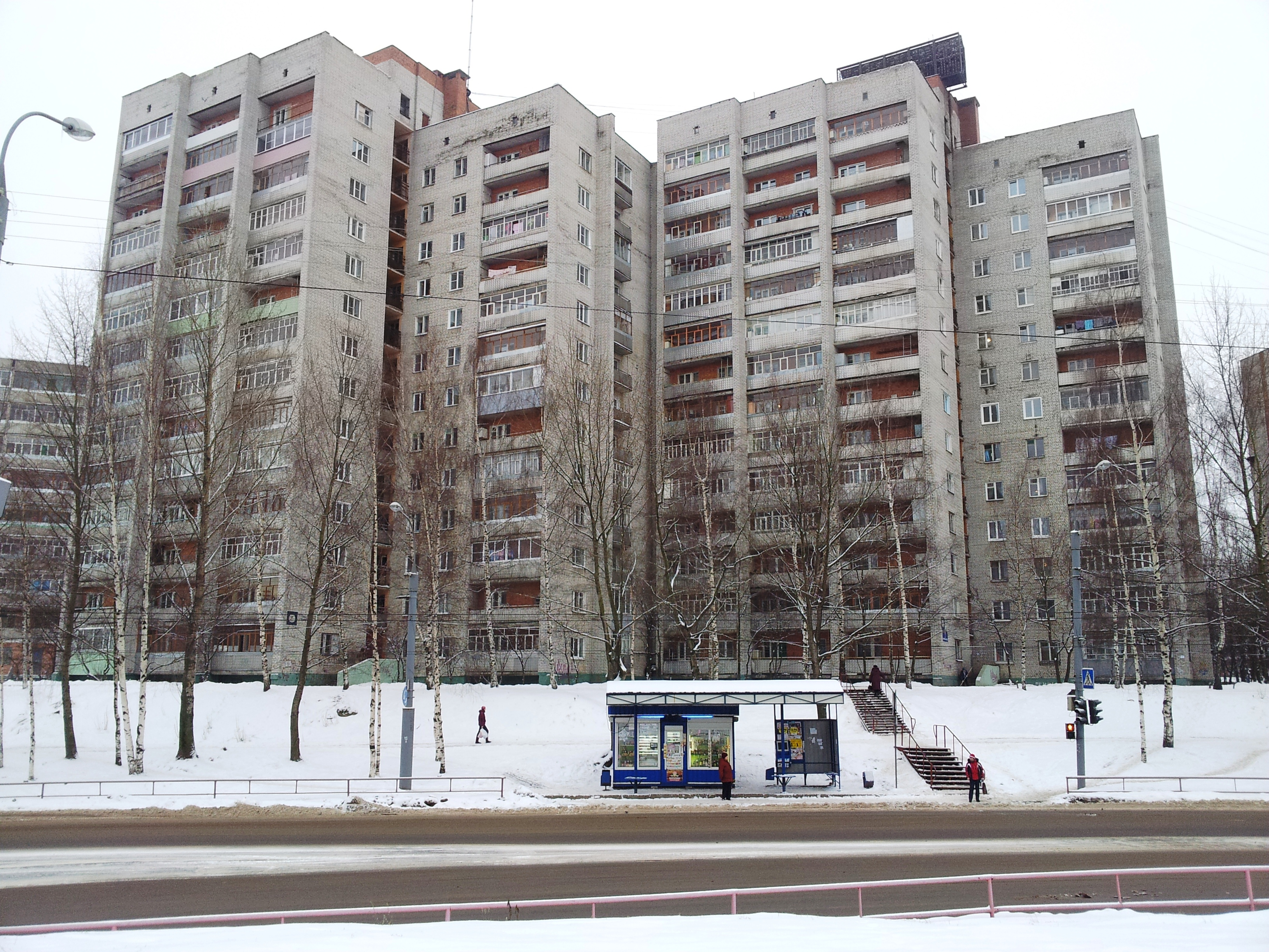 Two blocked high-rise apartment building "1-528KP-84E" series in Rybinsk, Russia